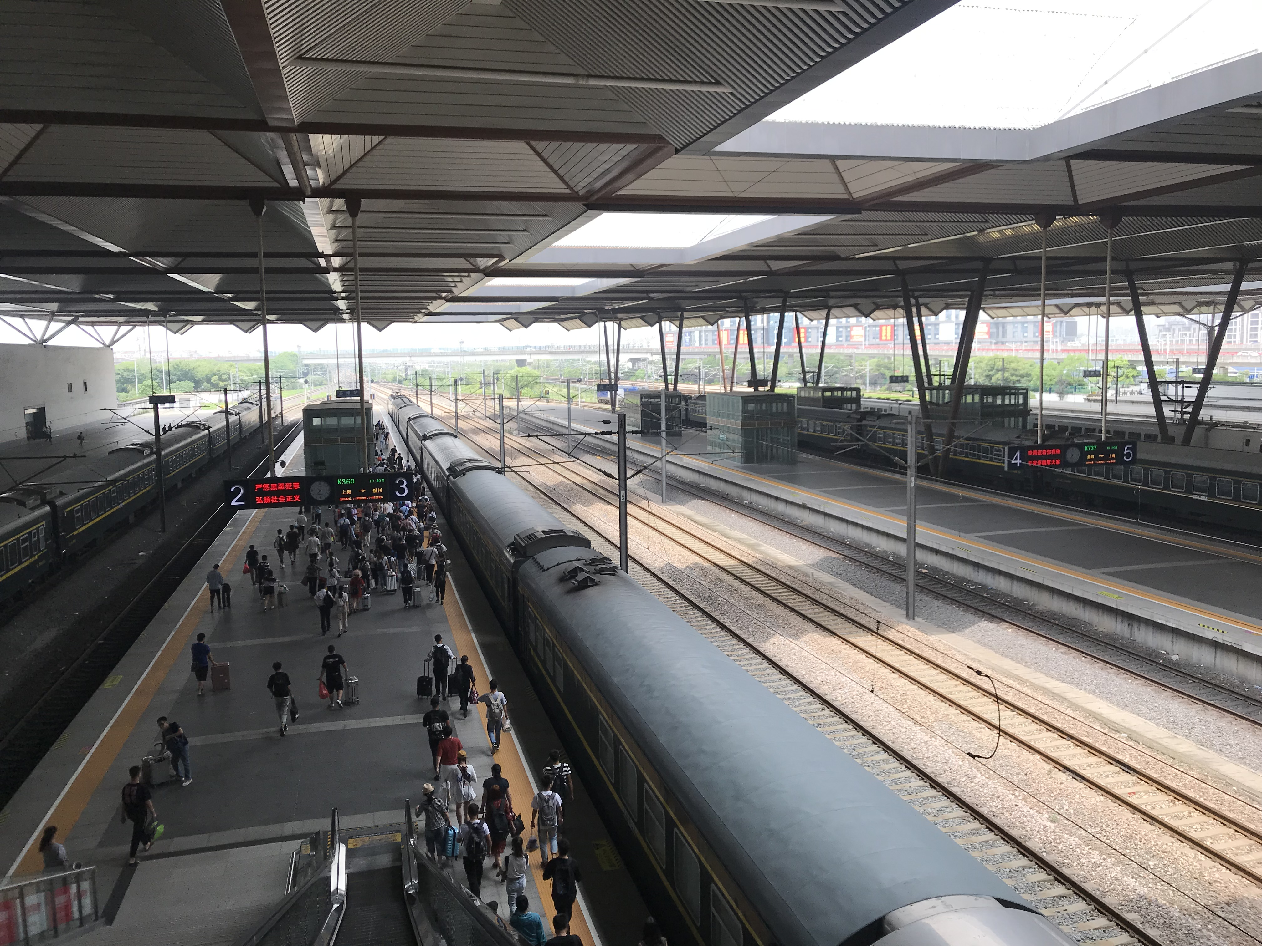 K360 from Shanghai to Yinchuan